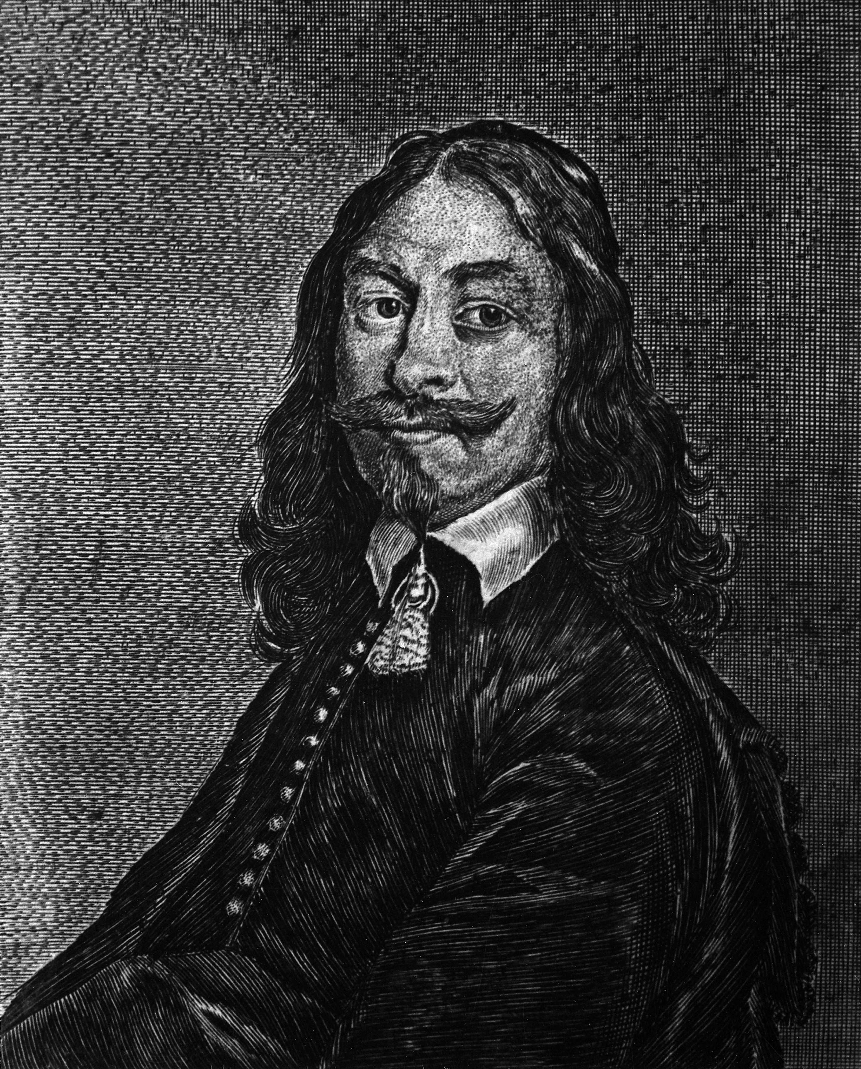 Portrait of biographer William Brownrigg Iconographic Collections Keywords: William Brownrigg; Joshua Dixon; Joshua Dixon